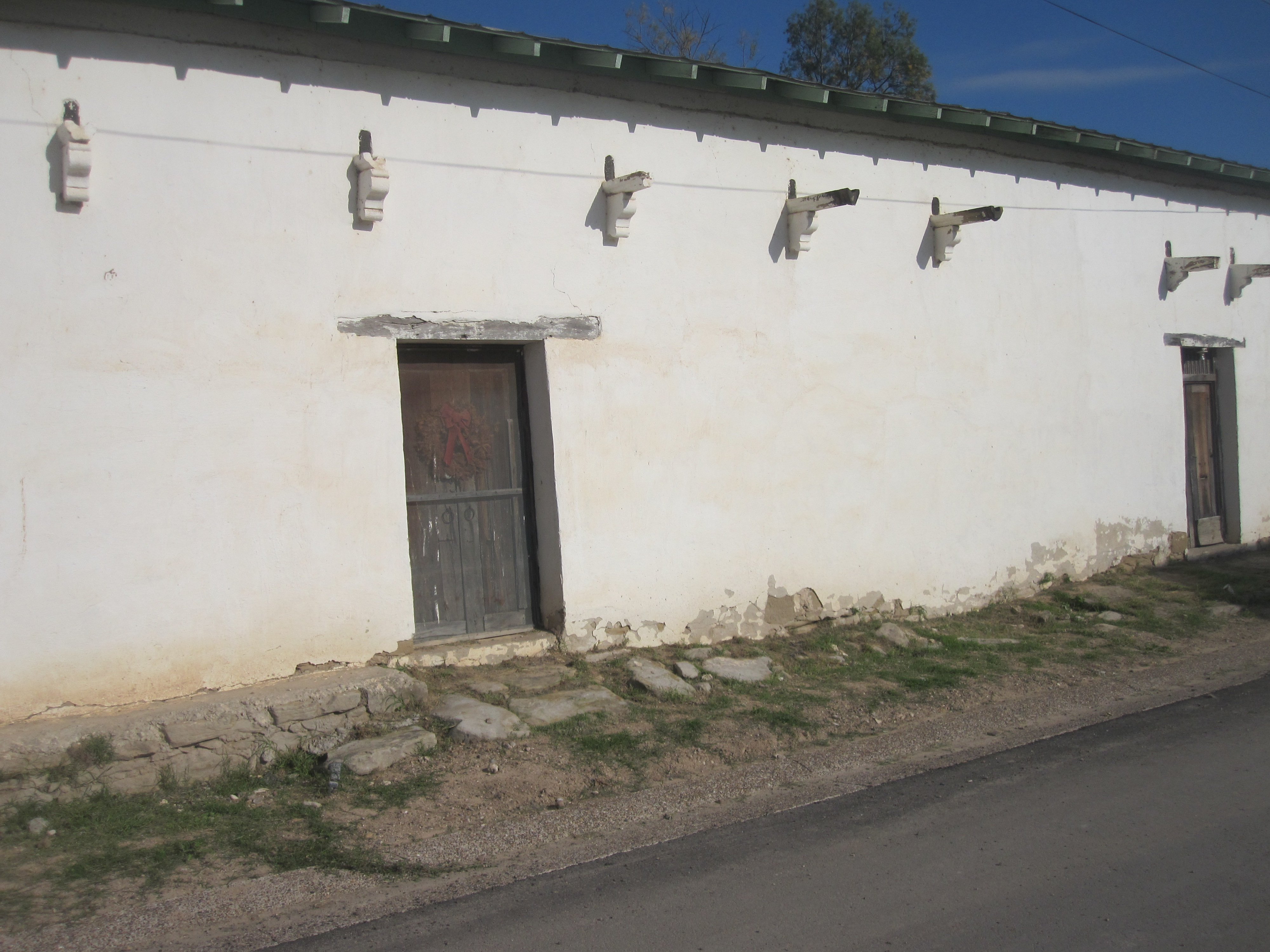 I took picture with Canon camera.